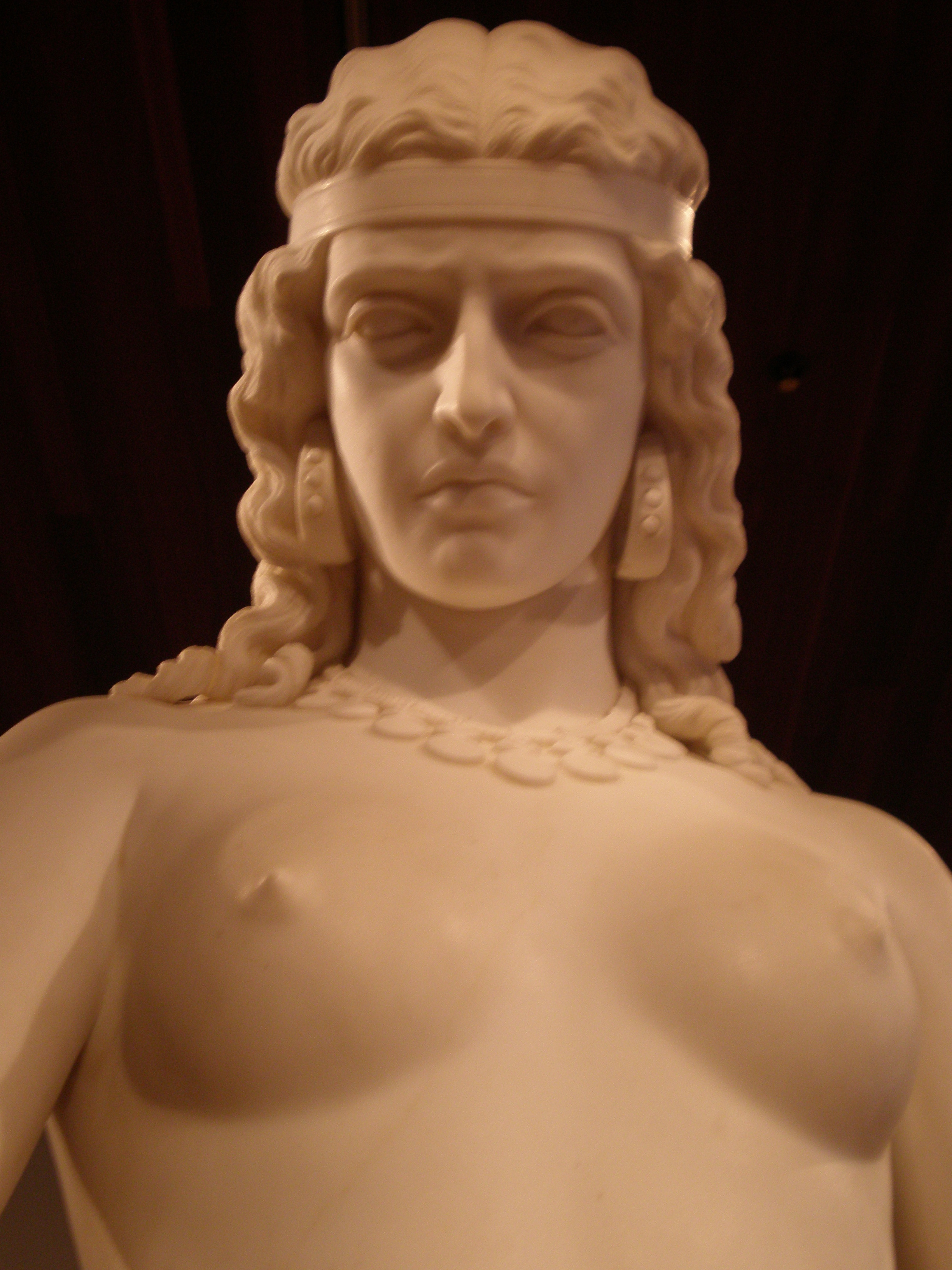 The face of Dalilah by William Westmore Story, marble, 1877. On display at the De Young Museum in San Francisco. 49621 See also File:Story - Dalilah front De Young Museum 49621.JPG.